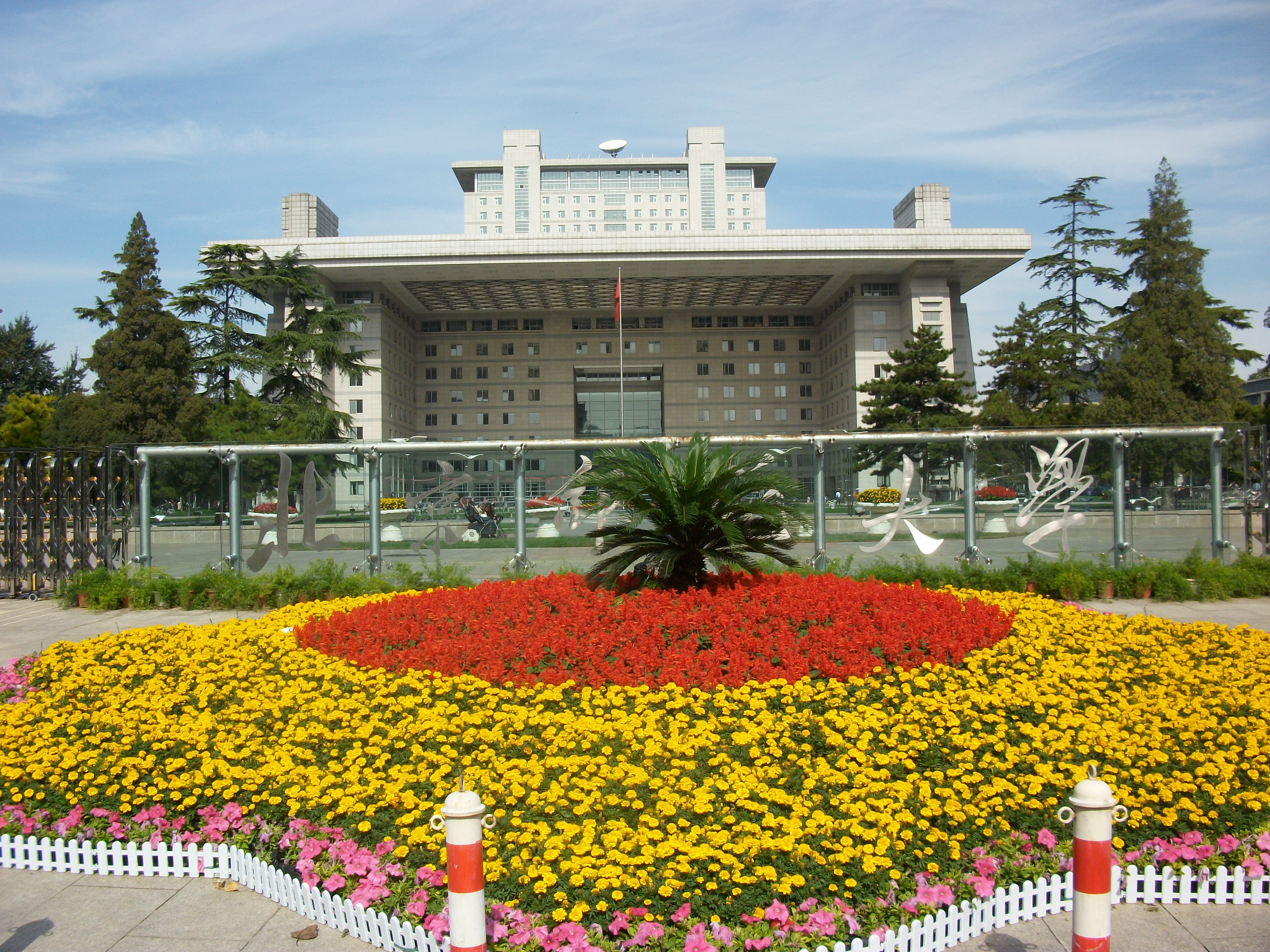 South gate of Beijing Normal University.